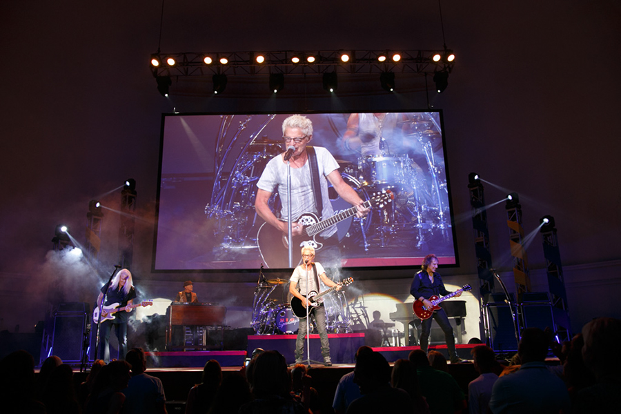 REO Speedwagon gave an up-close-and-personal performance for attendees of the IGC Show for the trade show's 10th anniversary celebration. The concert was held at Navy Pier's Aon Grand Ballroom in Chicago, IL.